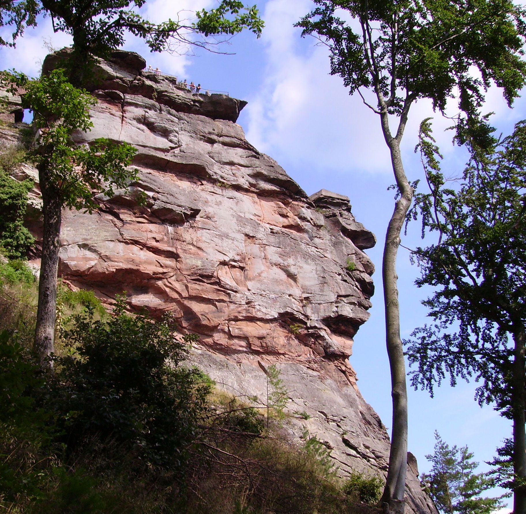 Reichsburg Trifels in Rhineland-Palatinate, Germany